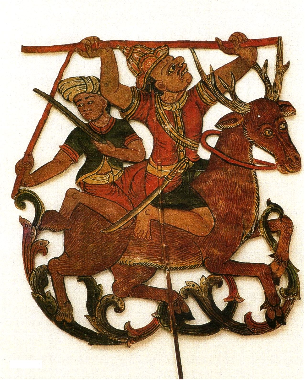 Nang rabam. Thai shadow play at dayligt